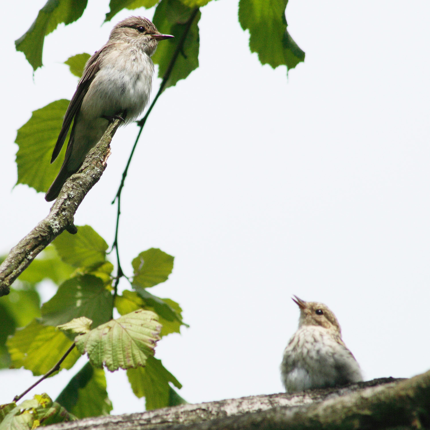 Spotted Flycatcher (Muscicapa striata), on the right a juvenile in Otterndorf, northern Lower Saxony, Germany.